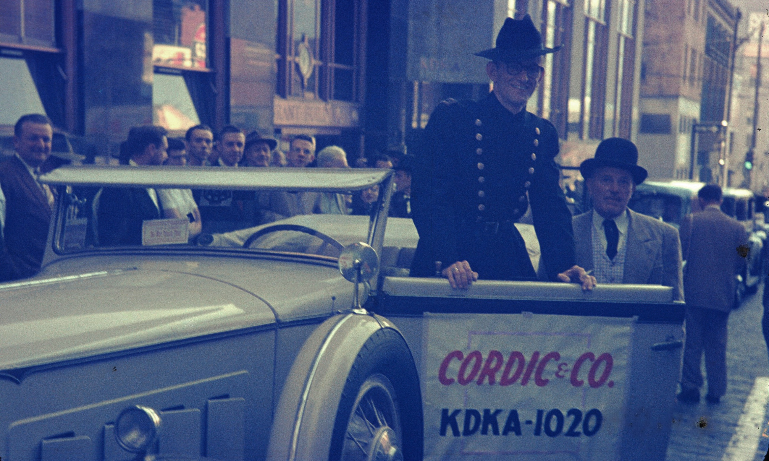 Regis Cordic and KDKA dominated the Pittsburgh morning airwaves in the 1950s and 1960s. At one point he had over 75% of the market. Here he is shown outside the Grant Building in Pittsburgh, at that time the headquarters of KDKA radio. This photo was taken by my great uncle John Mullen. I inherited his photo collection when he died.